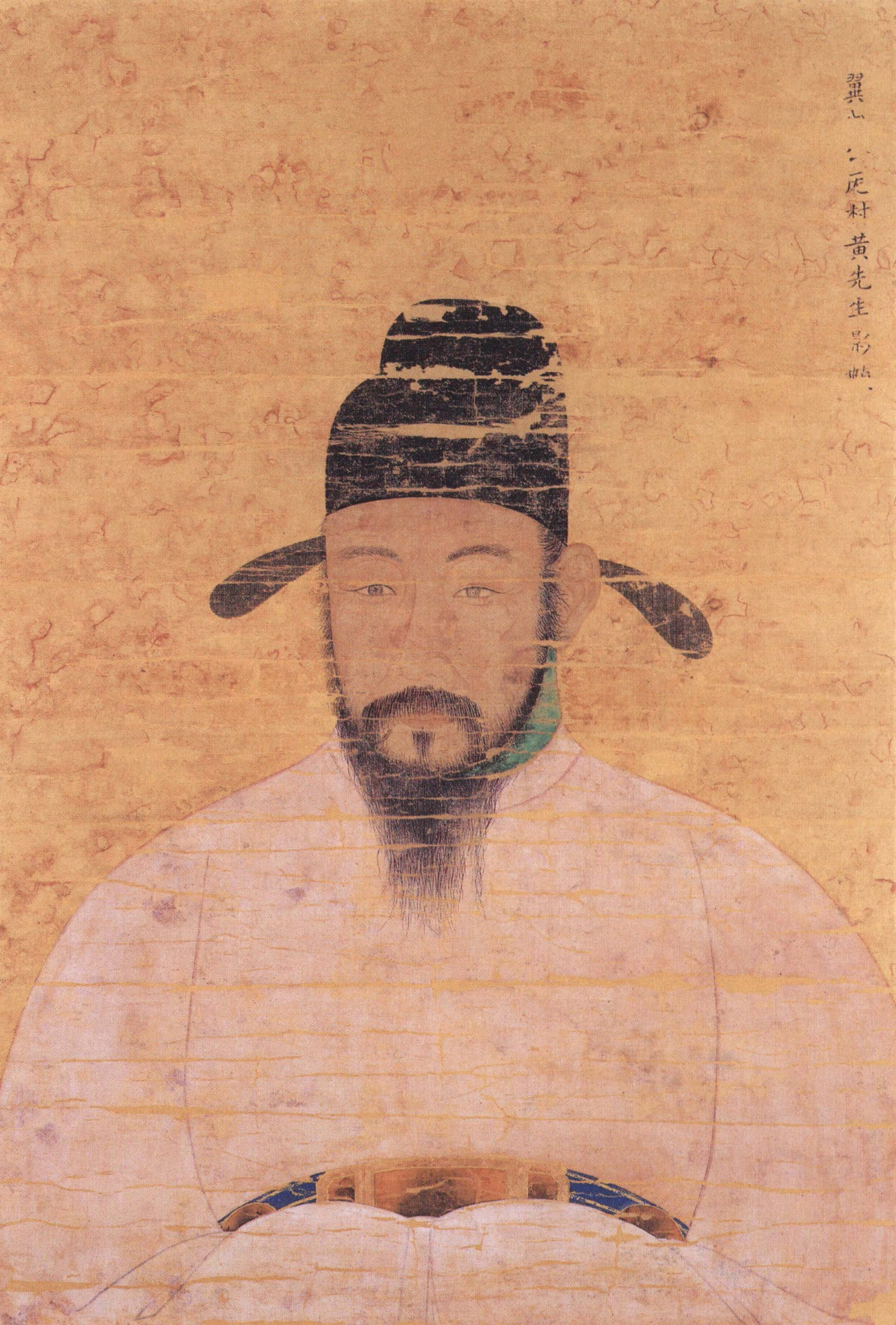 Portrait of Hwang Hui